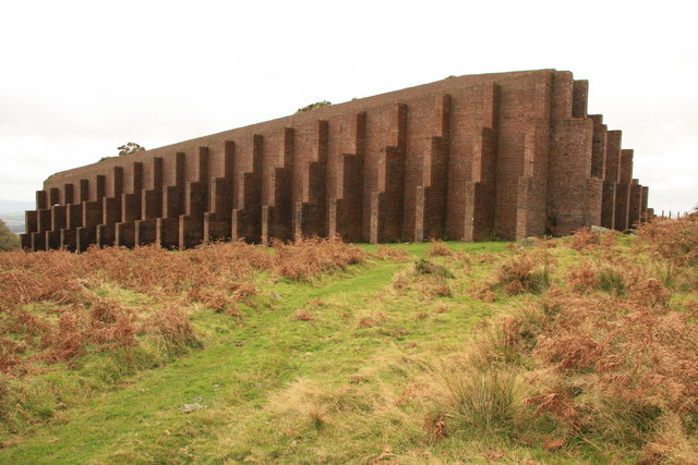 The Butts, Rippon Tor rifle range The massive retaining walls at the back of the butts. These are visible from some distance away.